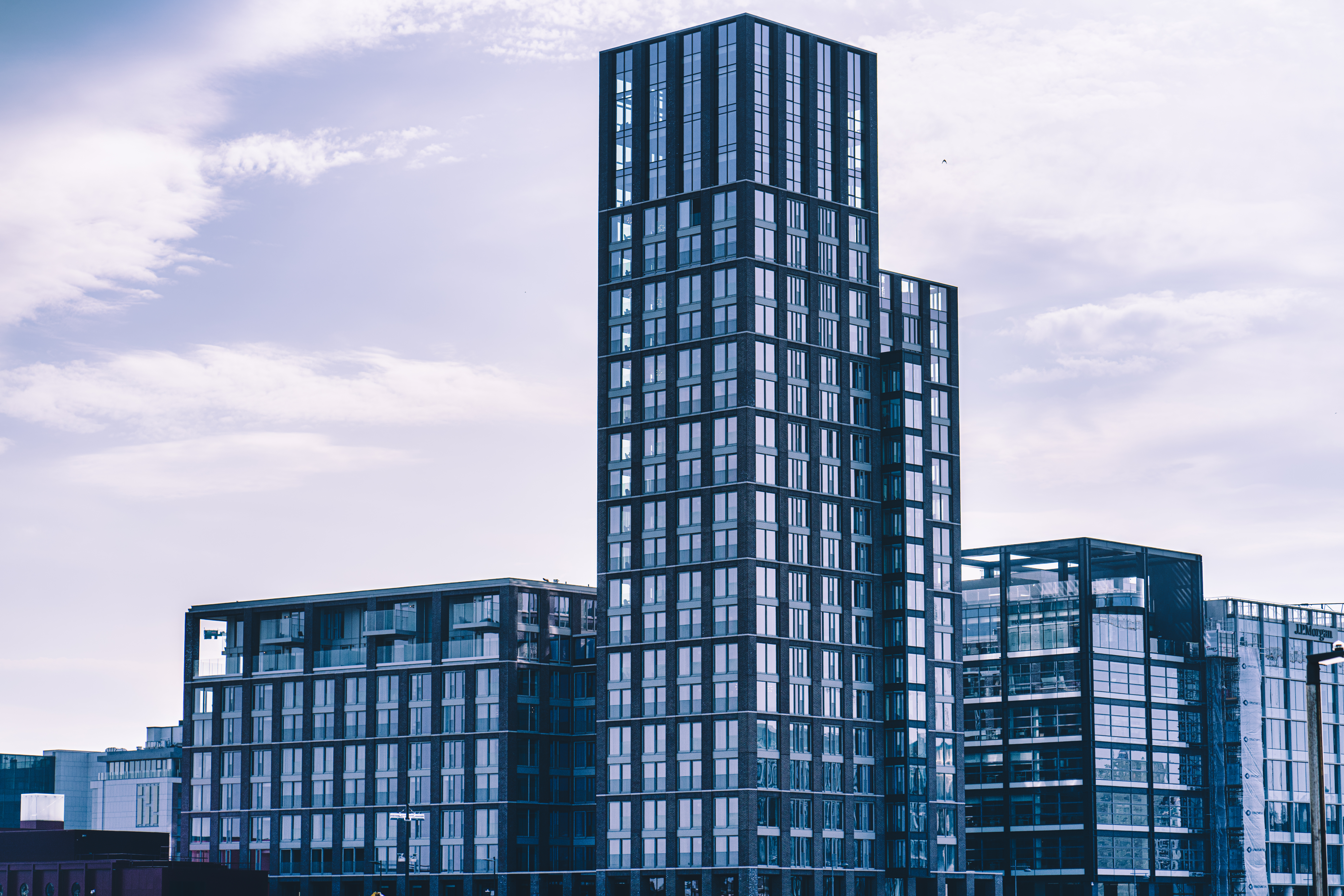 View of Capital Dock looking south west from North Wall Quay, Dublin